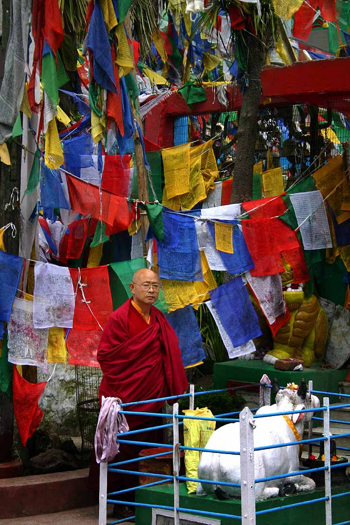 Buddhist monk selling prayer flags in a temple.